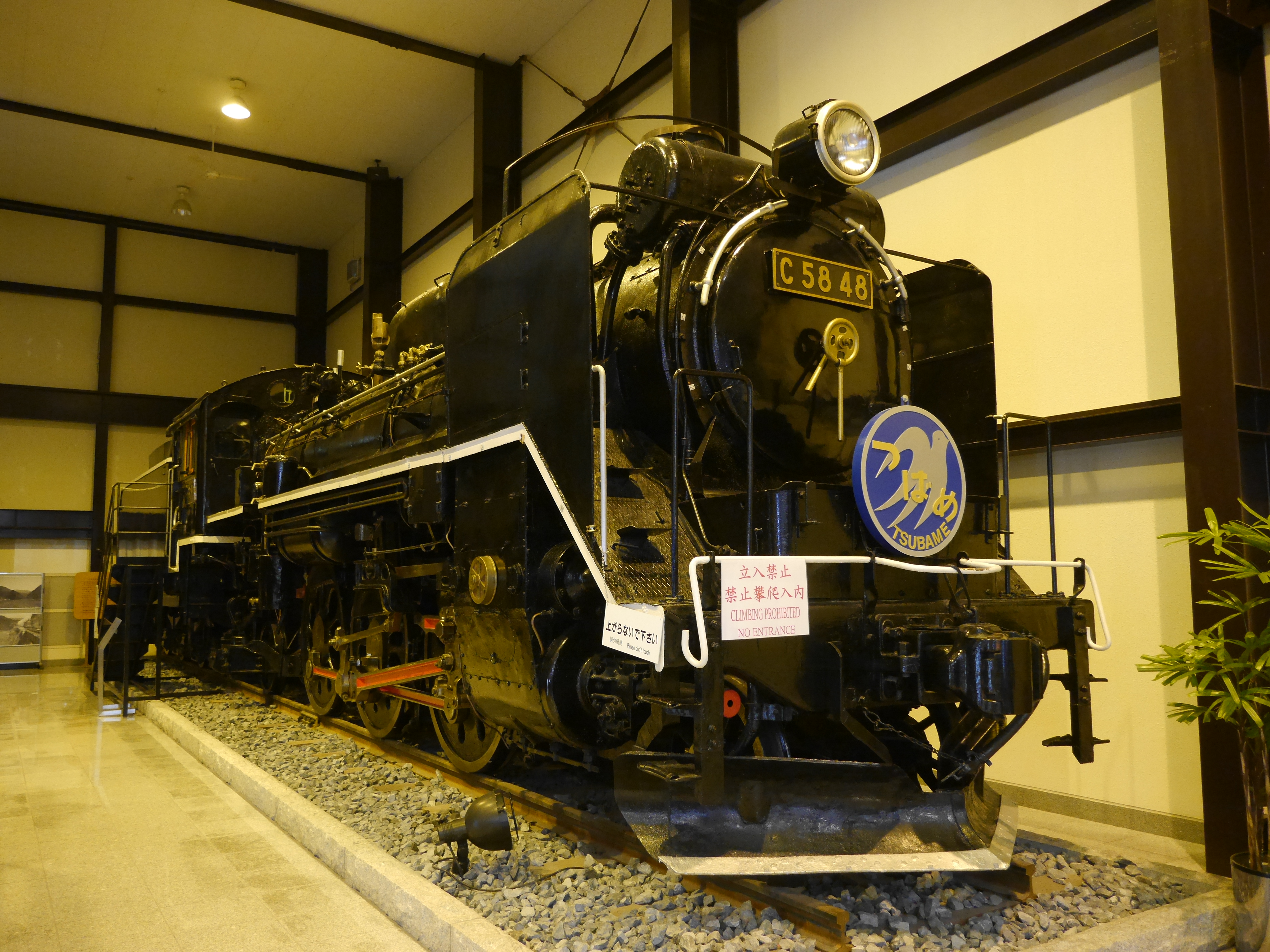 C58 48 steam engine at the 19th century hall adjacent to Torokko Saga station